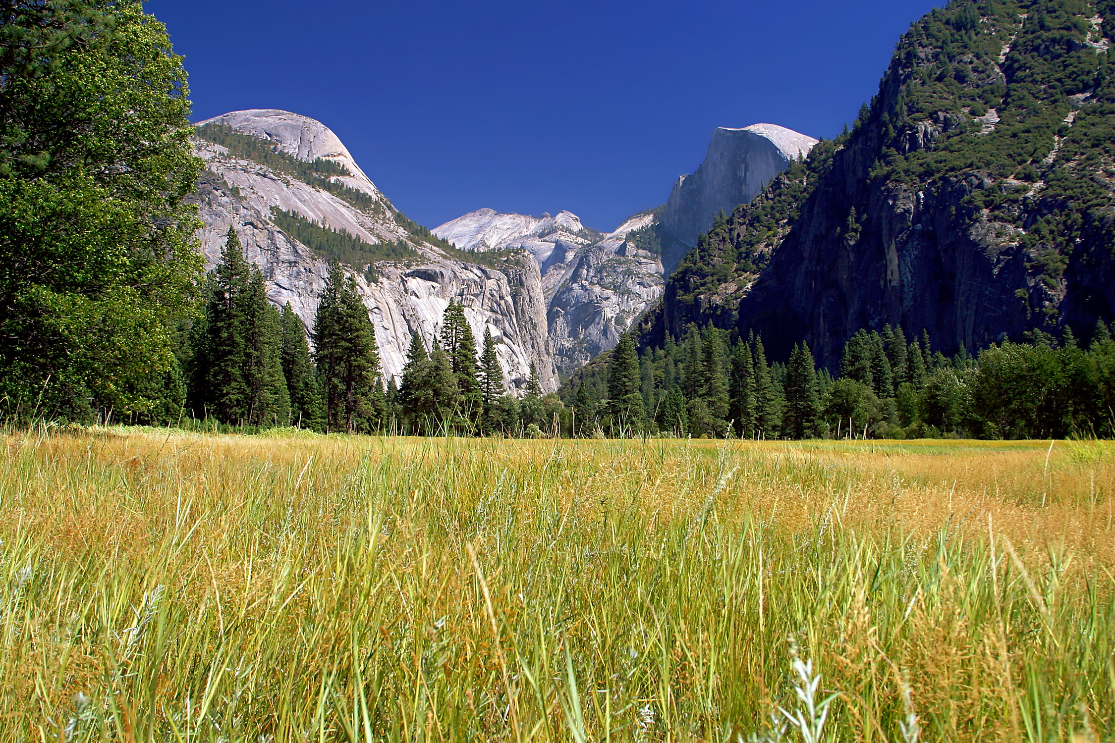 Yosemite Valley meadows – Half Dome — in Yosemite National Park, California, USA.